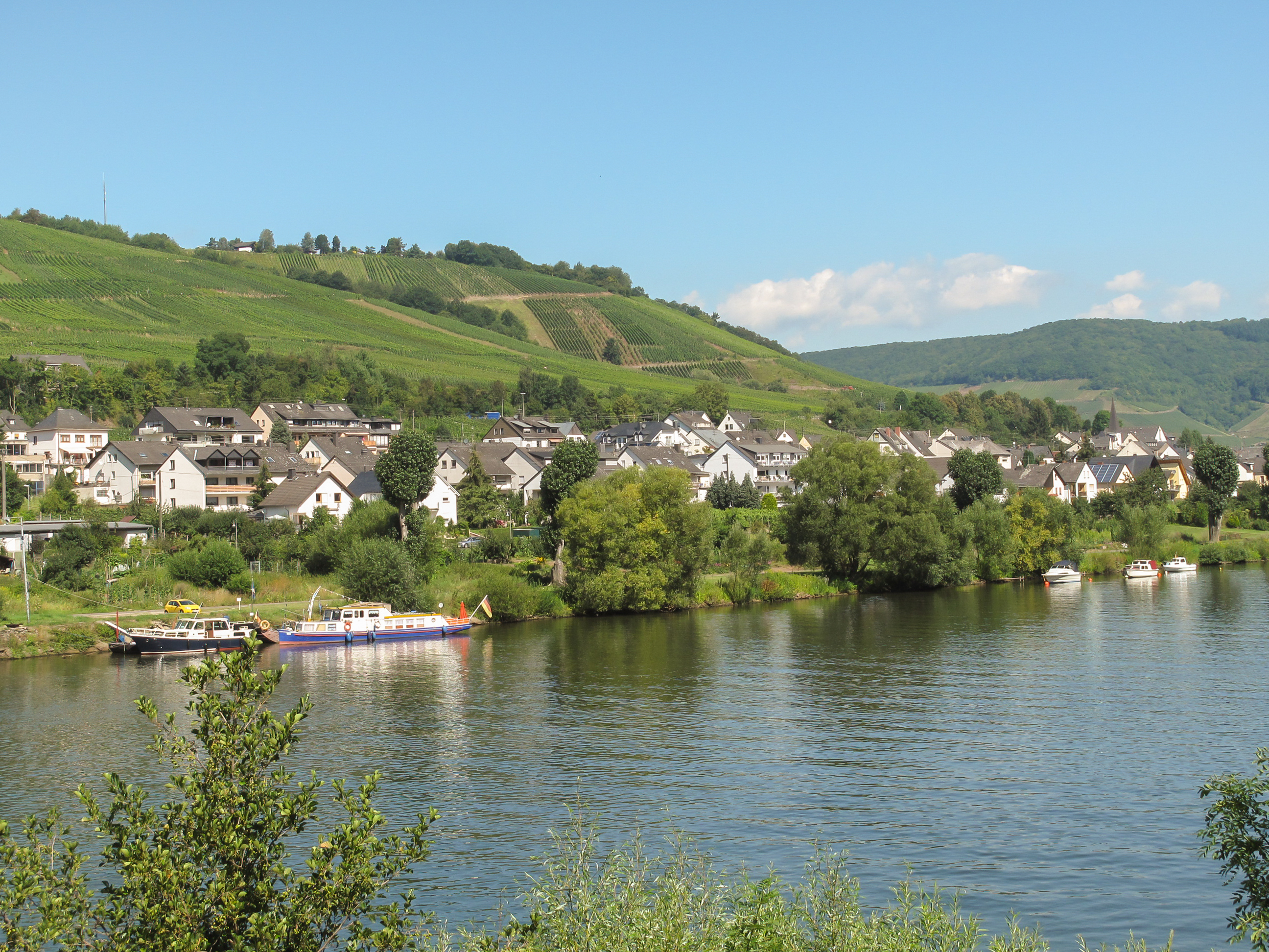 Kaimt-Mosel, the village